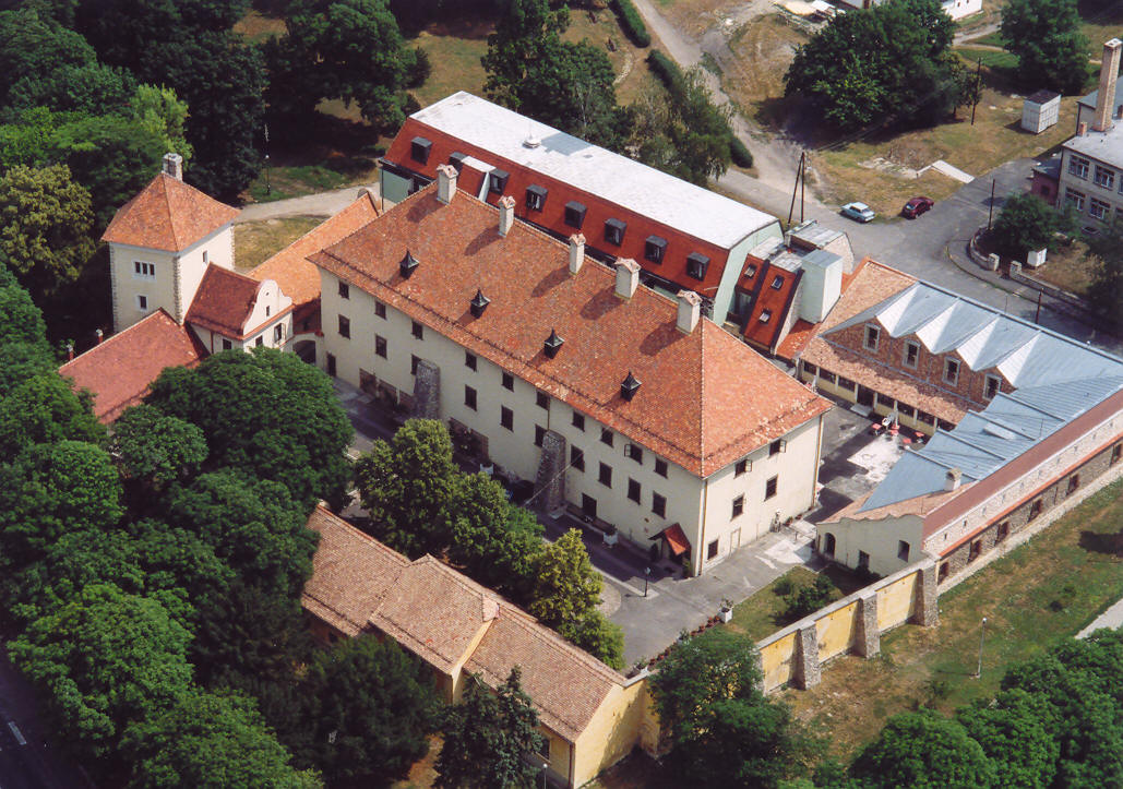 Devecser - Hungary - Europe